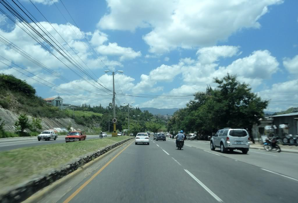 Westbound on Boulevard Fuerzas Armadas in Tegucigalpa, M.D.C, Honduras.